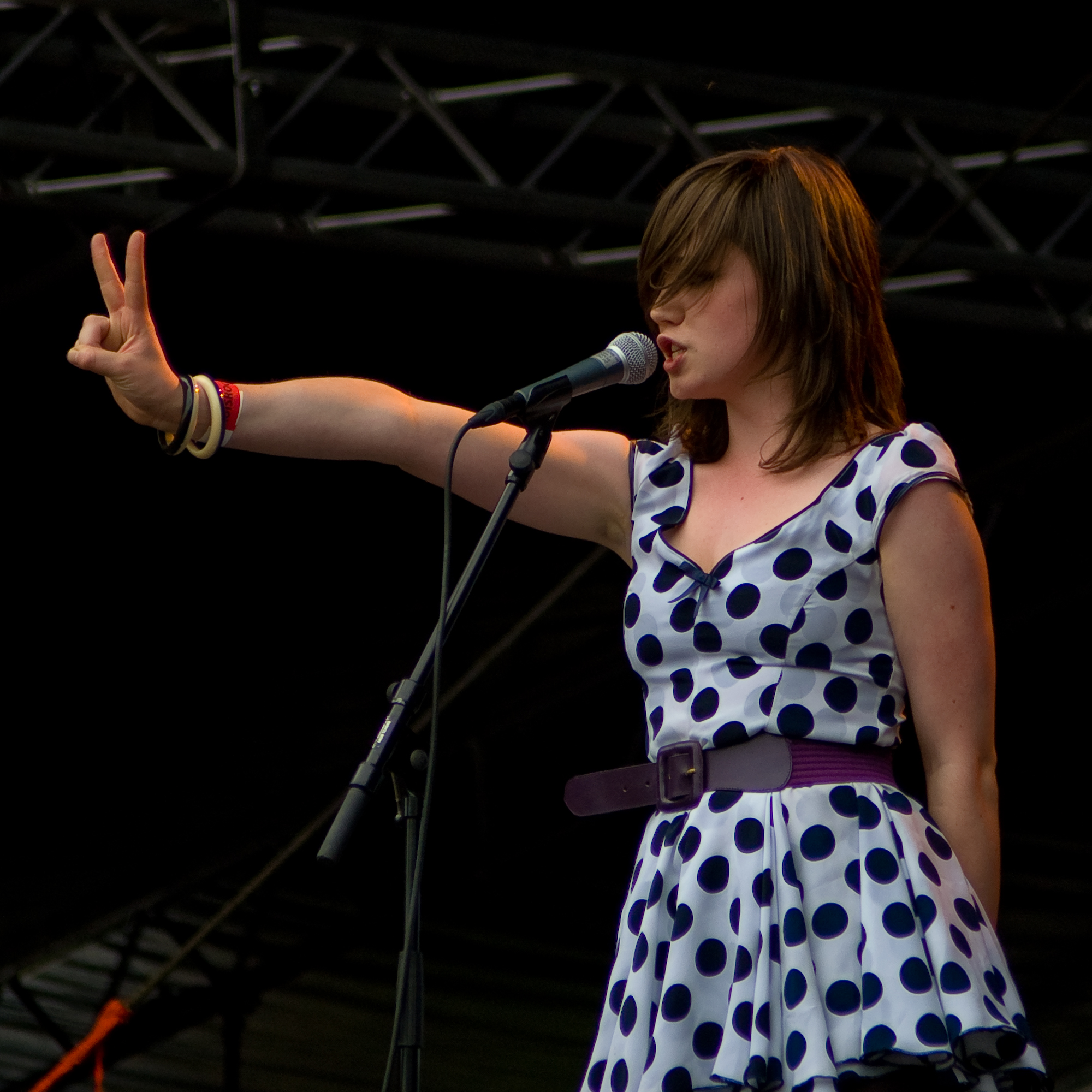 The Pipettes at Ruisrock 2007